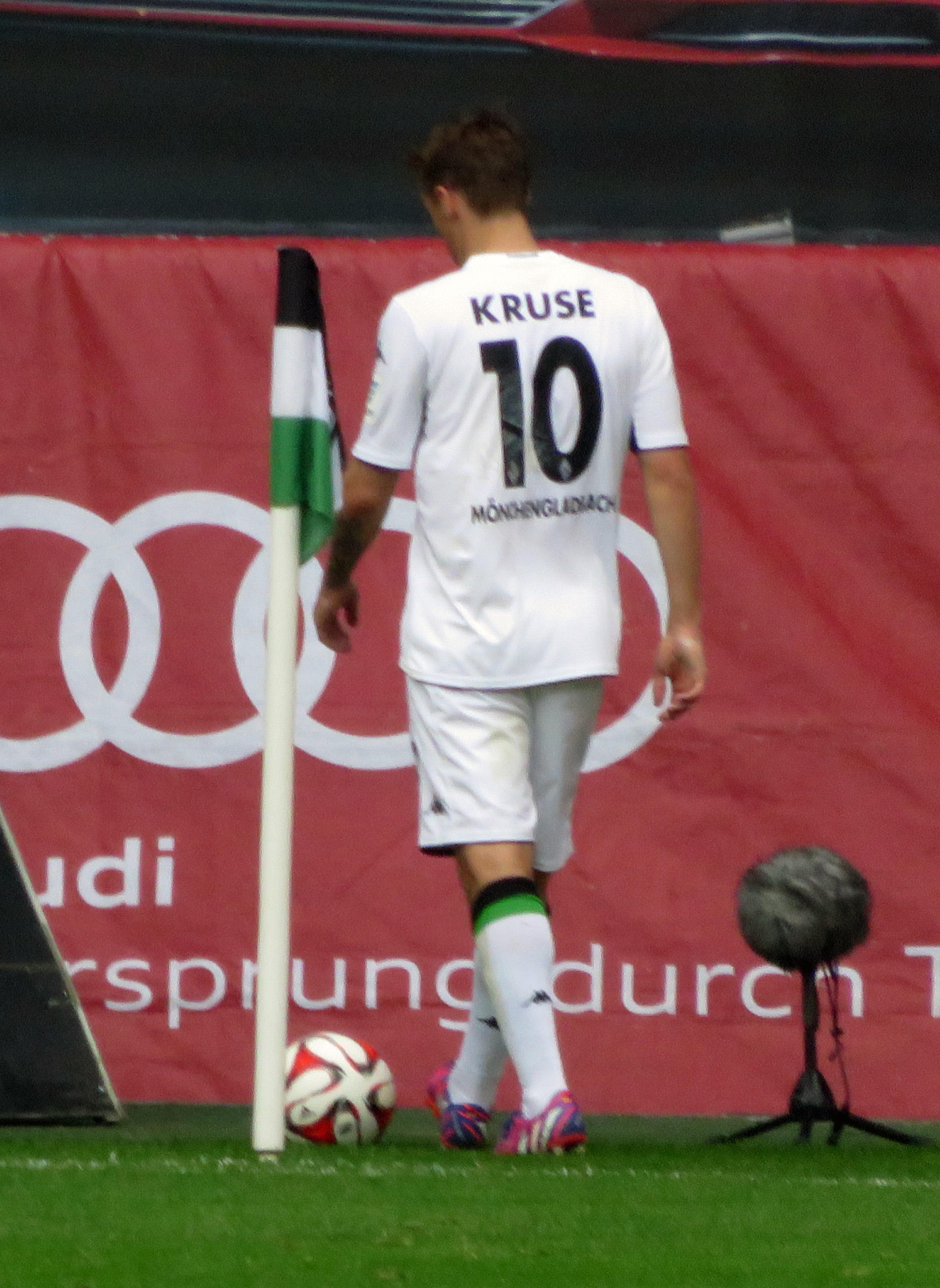 Max Kruse